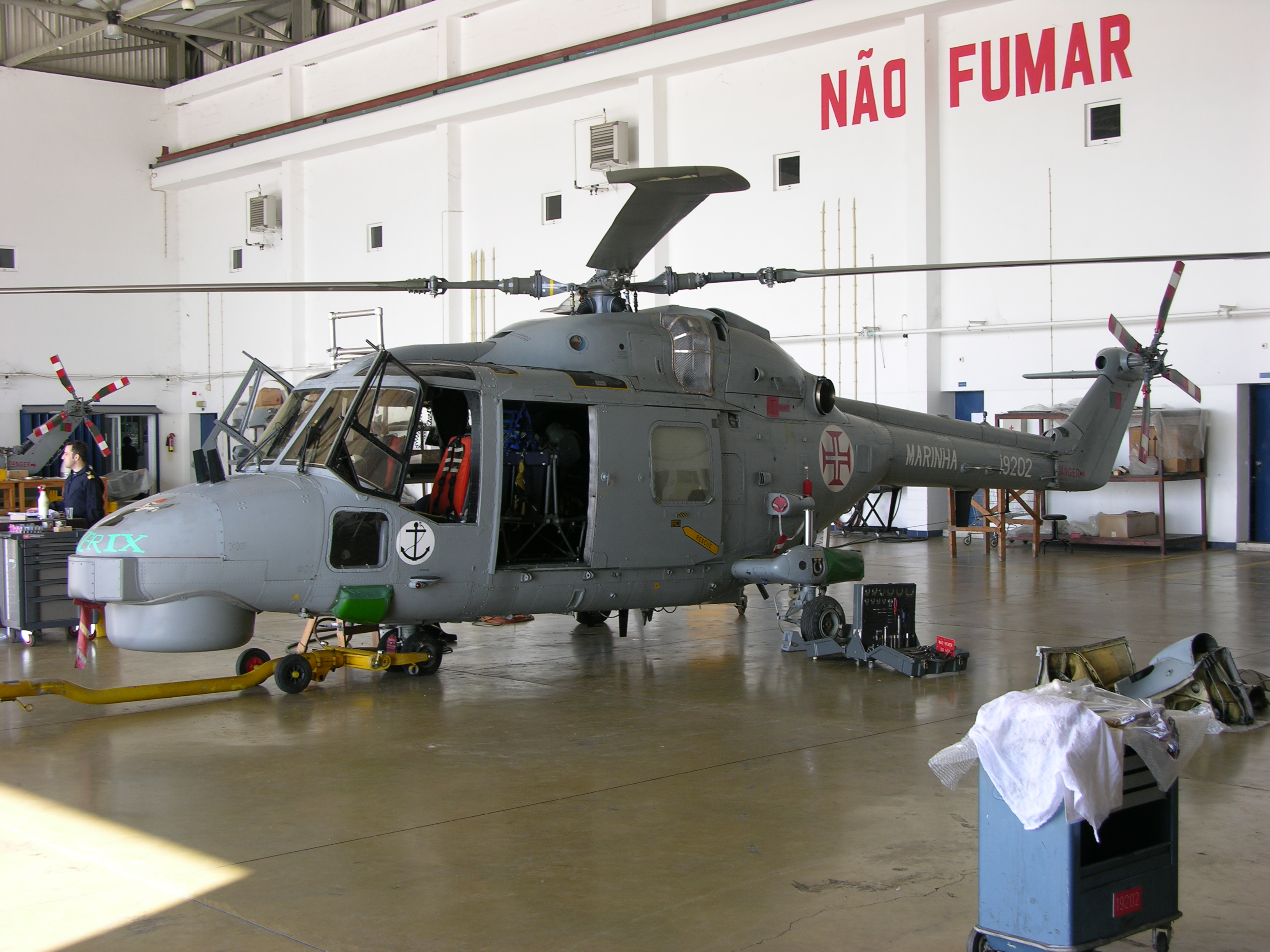 Seen hagared at its home base of Montijo, near Lisbon